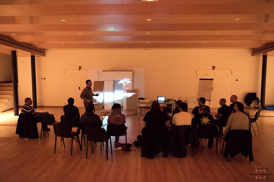 Alumnos del programa mentor 2018